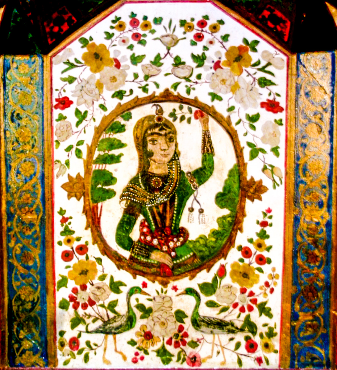 Дом Шекихановых 5 edited